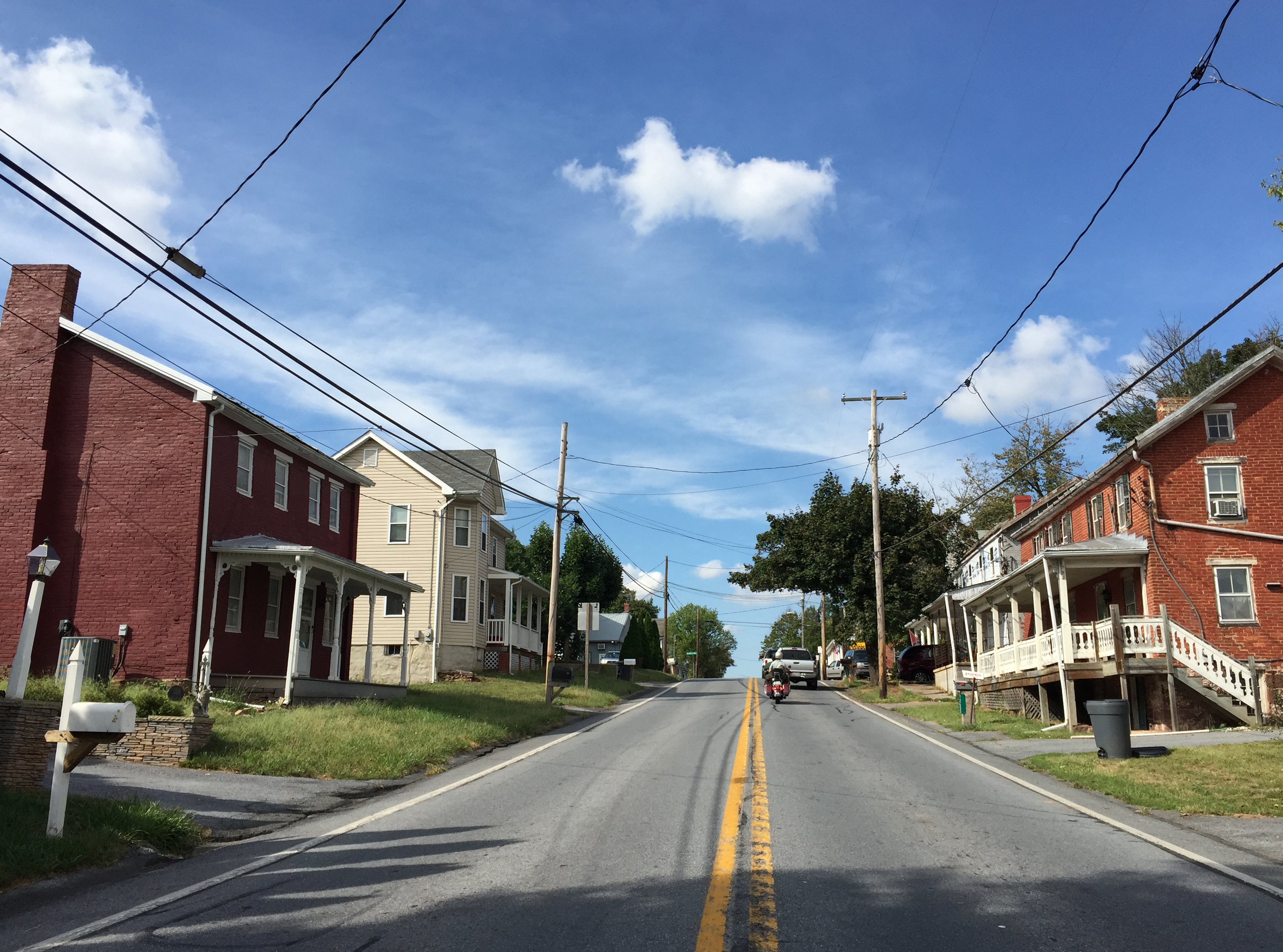 View north along Maryland State Route 550 (Creagerstown Road) between Old Frederick Road and Longs Mill Road in Creagerstown, Frederick County, Maryland